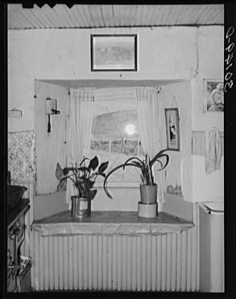 Window in sod house. McKenzie County, North Dakota